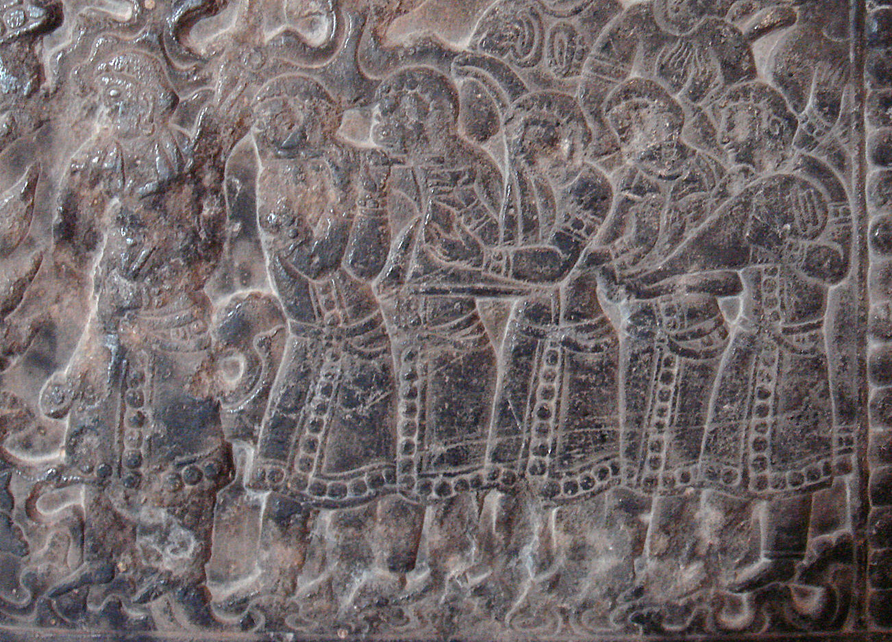 Detail of a limestone slab depicting Sogdian festivities from a funerary couch (Northern Qi dynasty, 550–577 CE) found near Anyang, Henan, held by Musée National des Arts Asiatiques-Guimet in Paris.